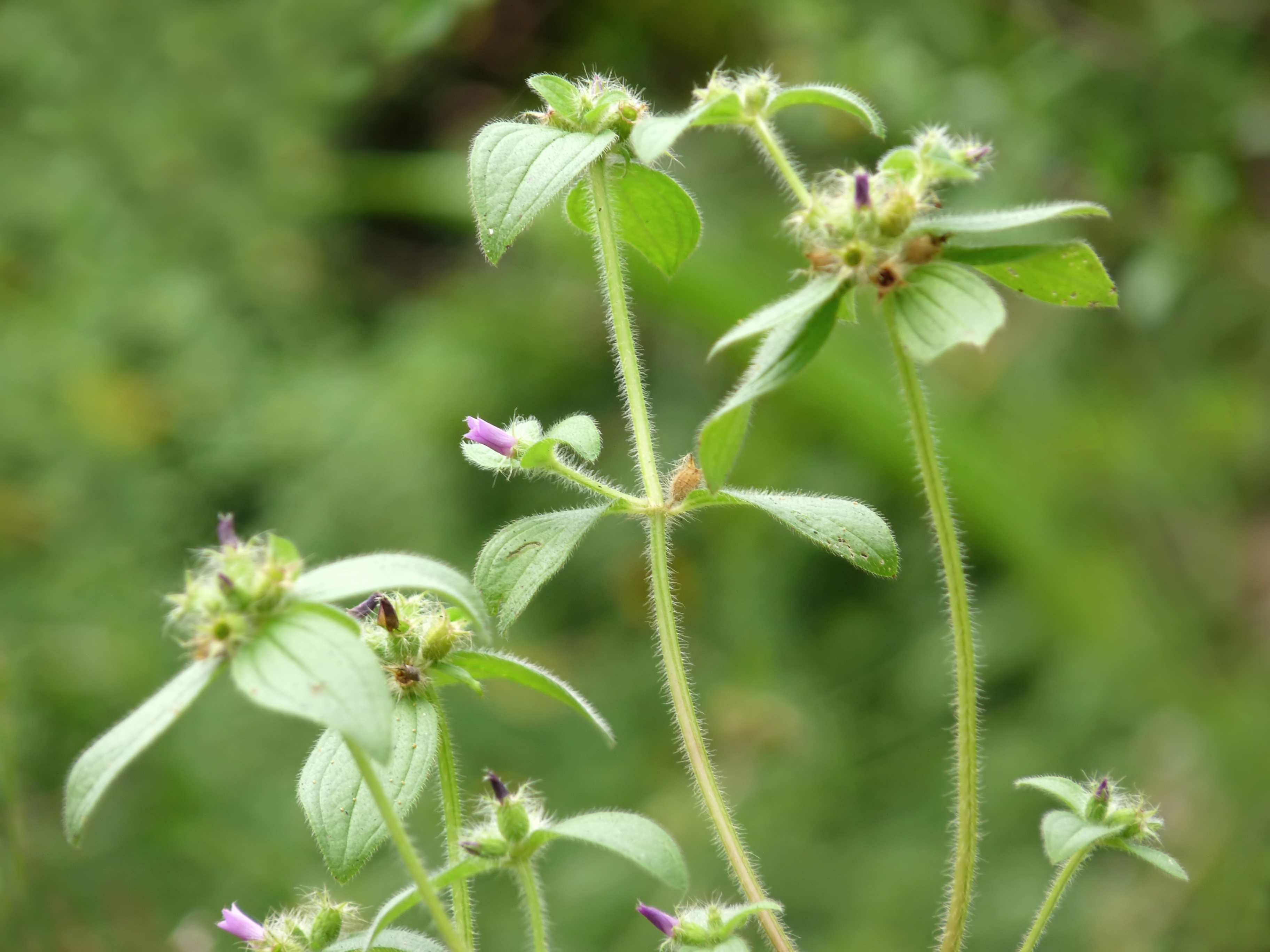 Osbeckia muralis, Wall Osbeckia, is an annual herb in the Melastomataceae family, growing to 10-30 cm tall. The species name muralis means, found growing on walls. Stems are erect, covered with long stiff hairs. Oppositely arranged leaves are elliptic lance-shaped, 1-3 cm long, densely hairy on both sides. Leaves have 3 parallel nerves starting from the base, and are carried on 3 mm long stalks. Purple-pink flowers are borne in heads, with 2-4 leaves just under the head. Sepal tube is bell-shaped, 6-7 mm, covered with long bristly hairs. Flowers are funnel-shaped, with 4-5 petals. Fruit is oblong, 4-ribbed. Flowering: August-September.